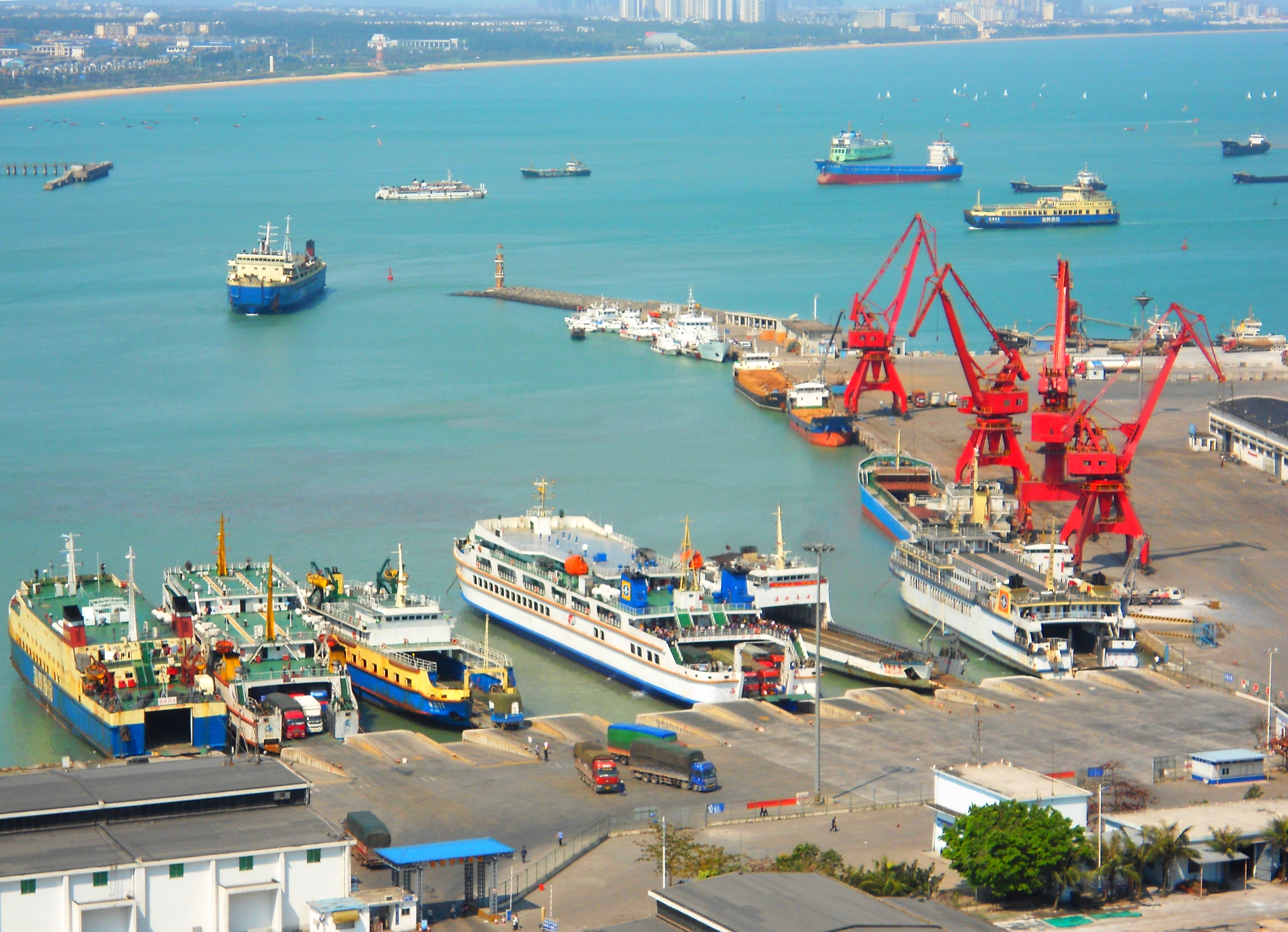 Haikou Xiuying Port, Haikou, Hainan Province, People's Republic of China